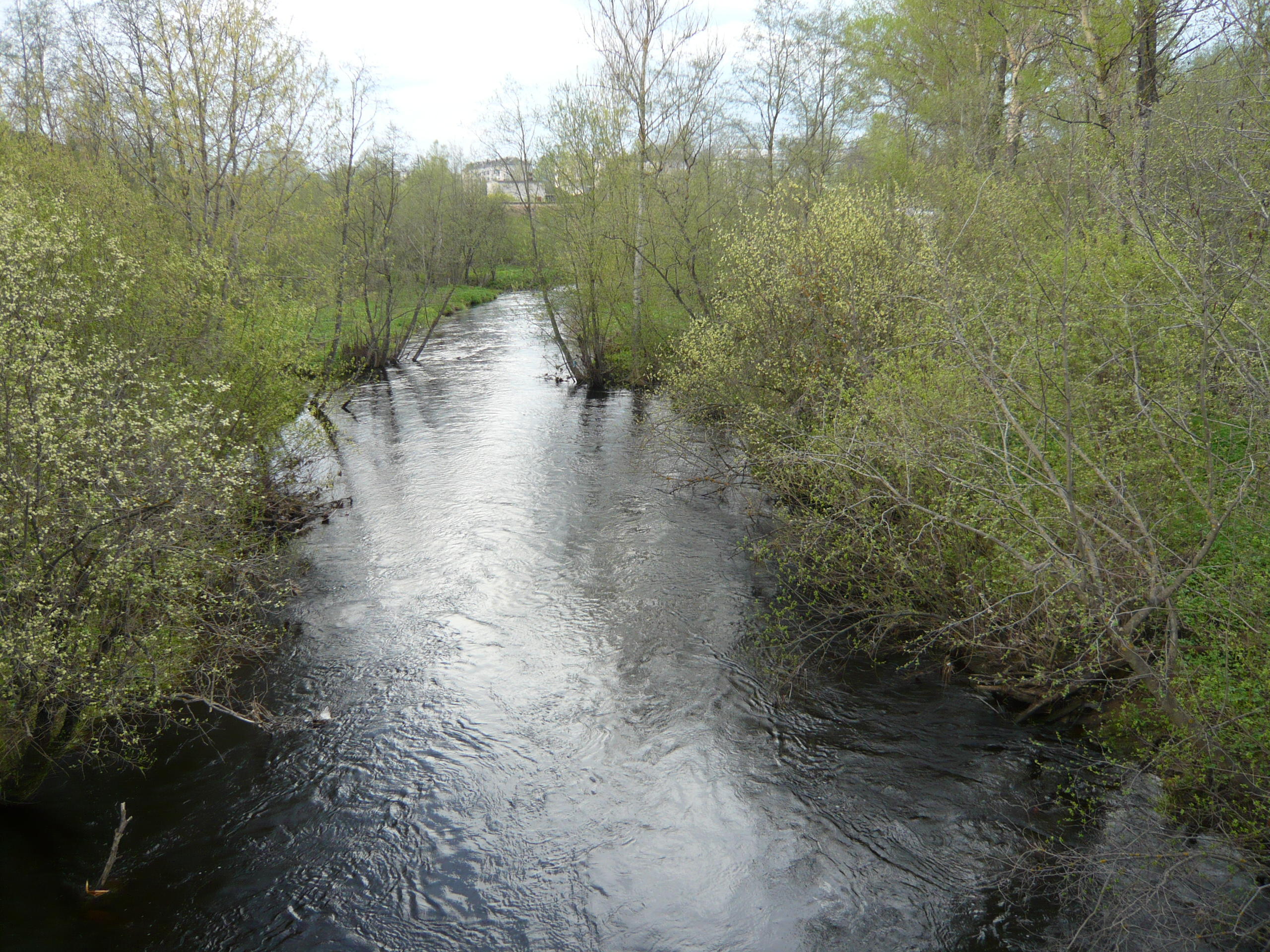 Osuga river in Kuvshinovo town 9 May 2010 year